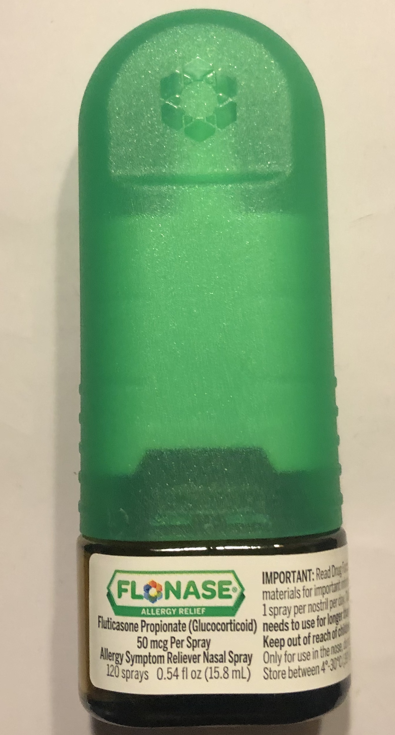 Image of Flonase (Fluticasone propionate) nasal spray. Purchased over the counter in the United States.